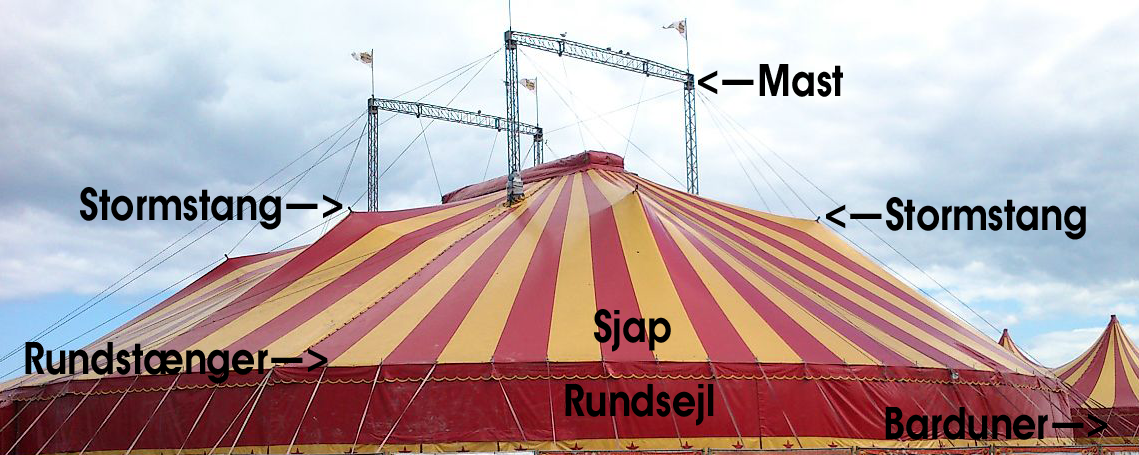 Circus tent with descriptions in Danish